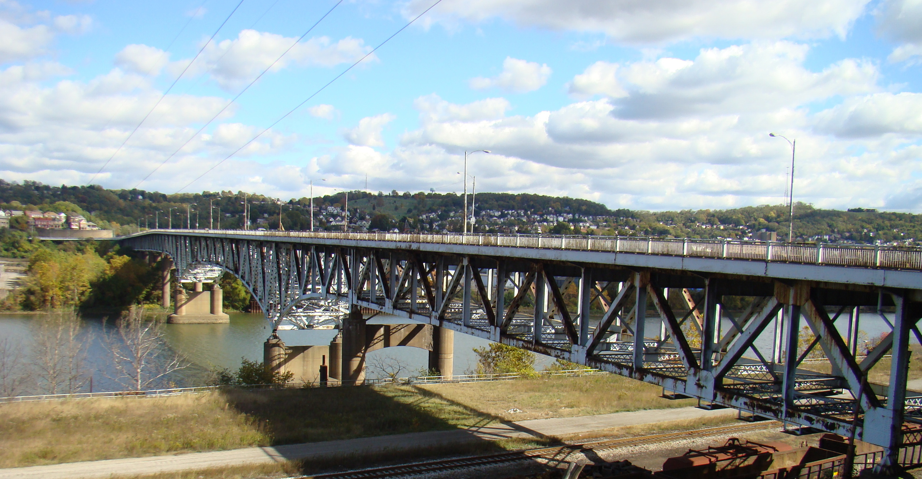 Rankinbr Photograph of the Rankin Bridge which I produced and give away to all